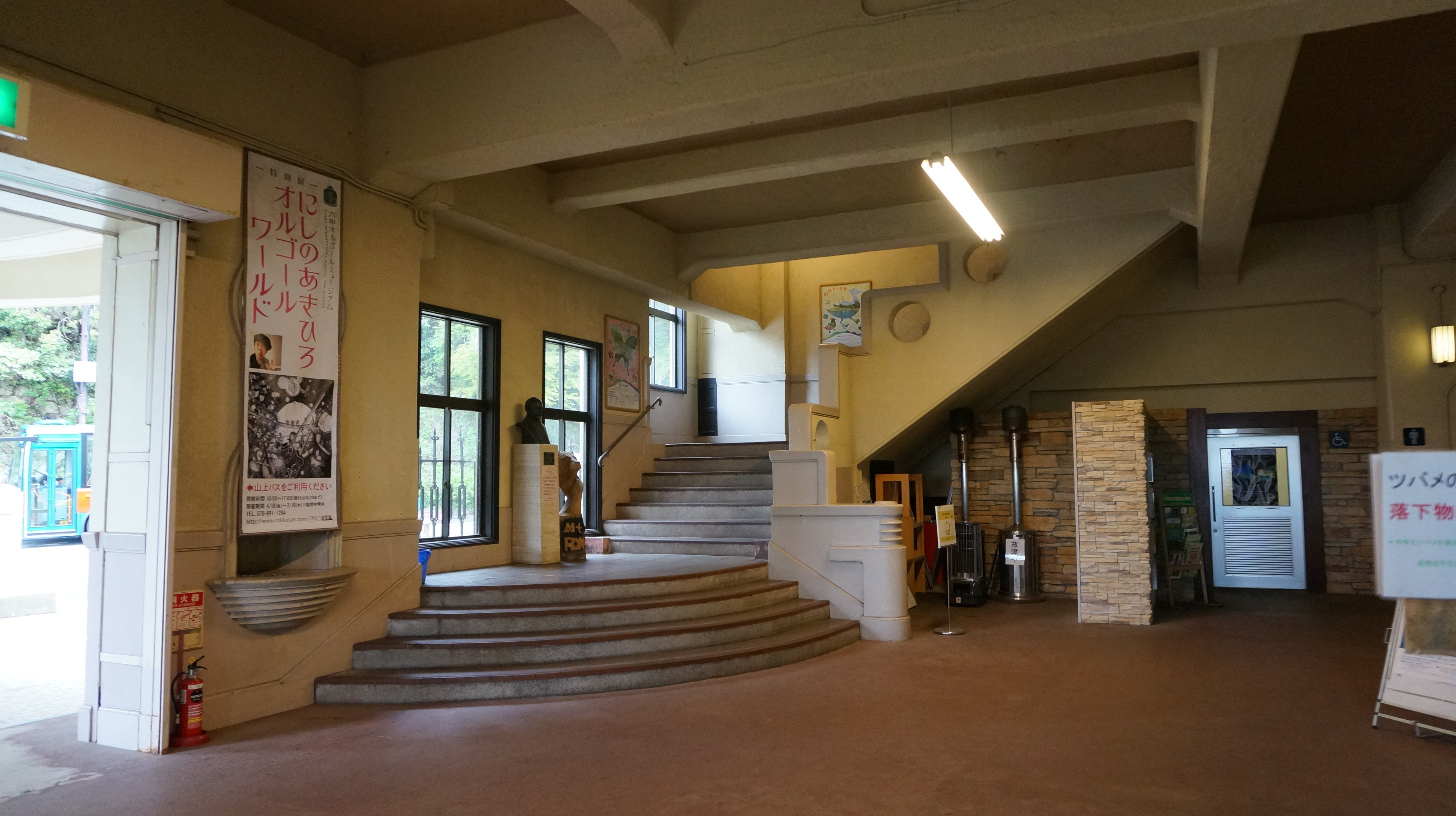 A stairway in Rokko Sanjo station.